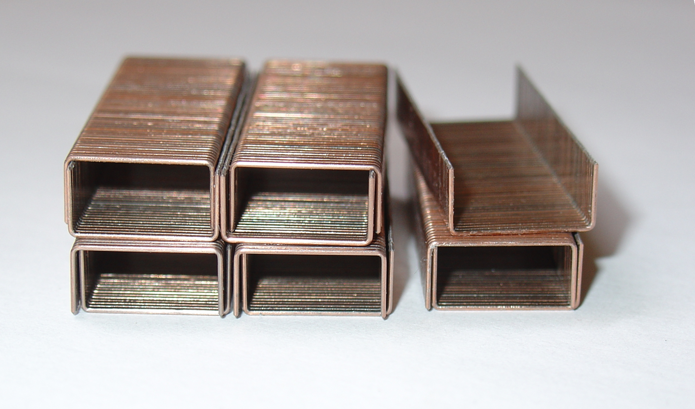 Coppered staples.